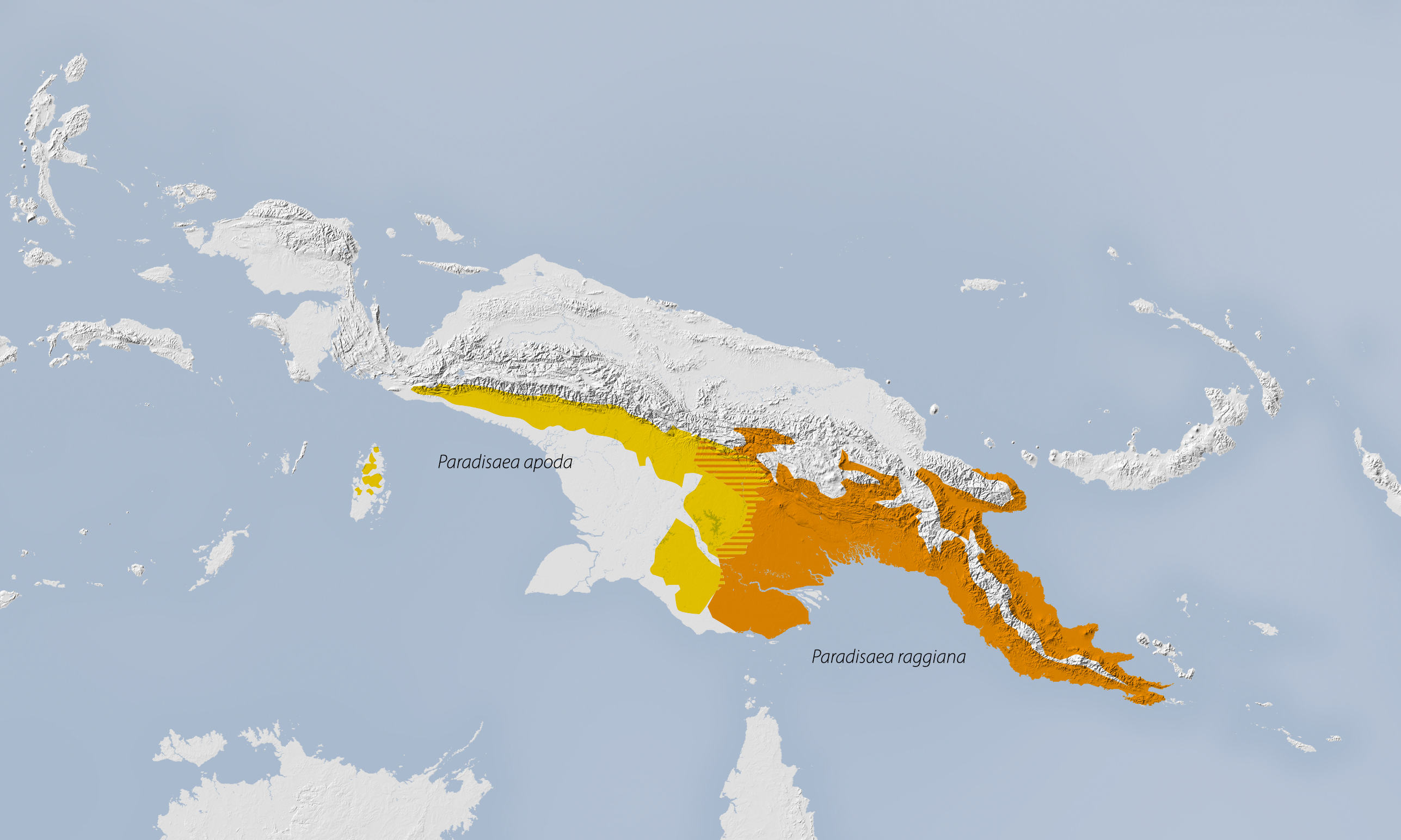 Breeding distribution of the Greater Bird-of-paradise (Paradisaea apoda = yellow) and the Raggiana Bird-of-paradise (Paradisaea raggiana = orange) and zone of sympatrical occurence (striped) with hybrids and mixed leks. Data Map